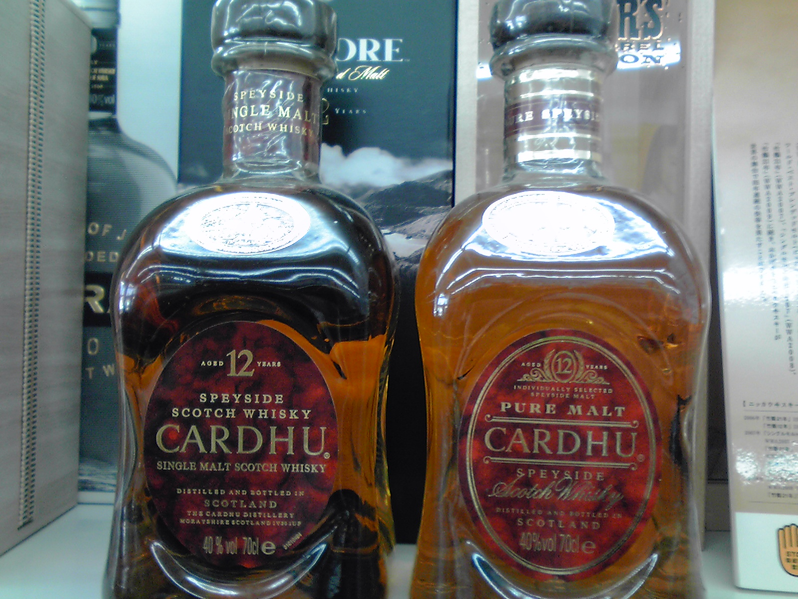 A side-by-side comparison of the Cardhu single malt and 'pure' (vatted) malt bottles prior to label changes.